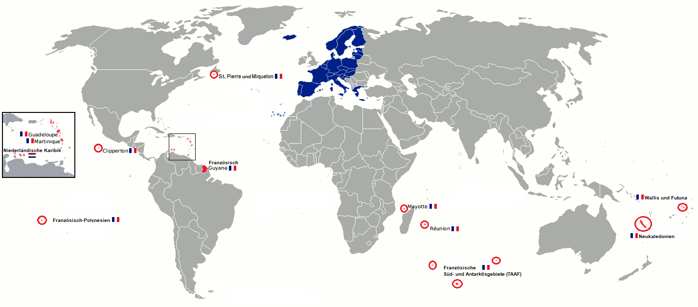 Overseas areas of France and the Netherlands